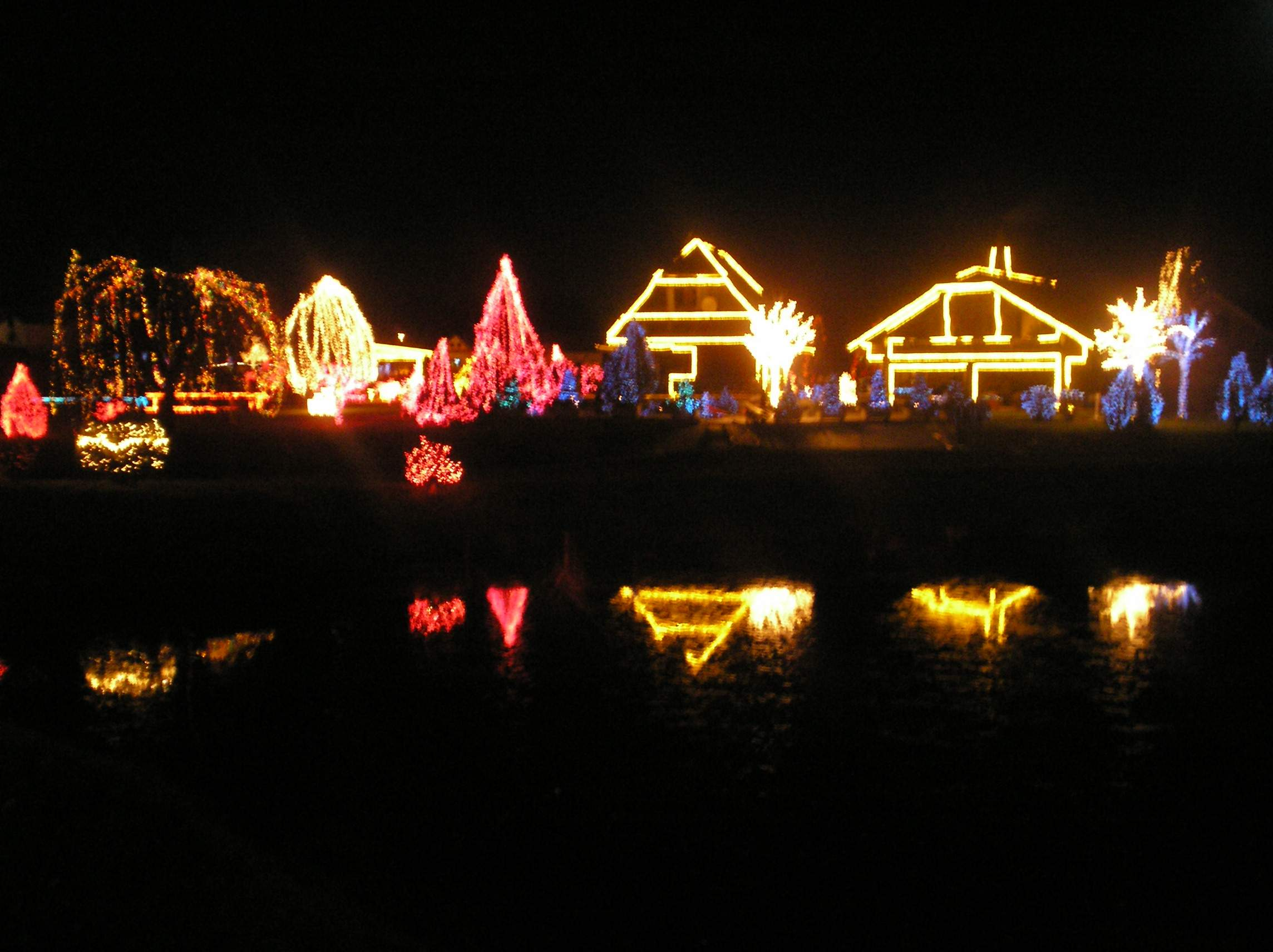 Christmas fairy tale, light show, Grabrovnica, Croatia